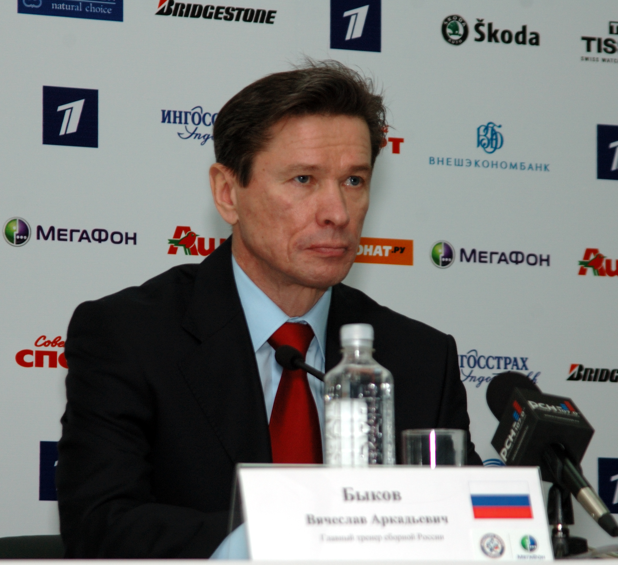 Bykov at First channel cup 2010